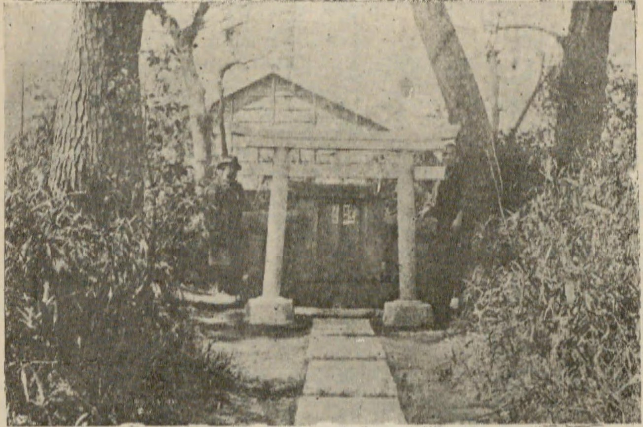 Tateishi-hokora in Katsushika, Tokyo, Japan